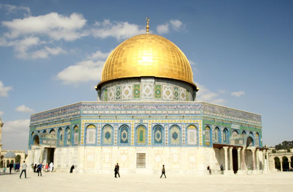 Dome of the Rock